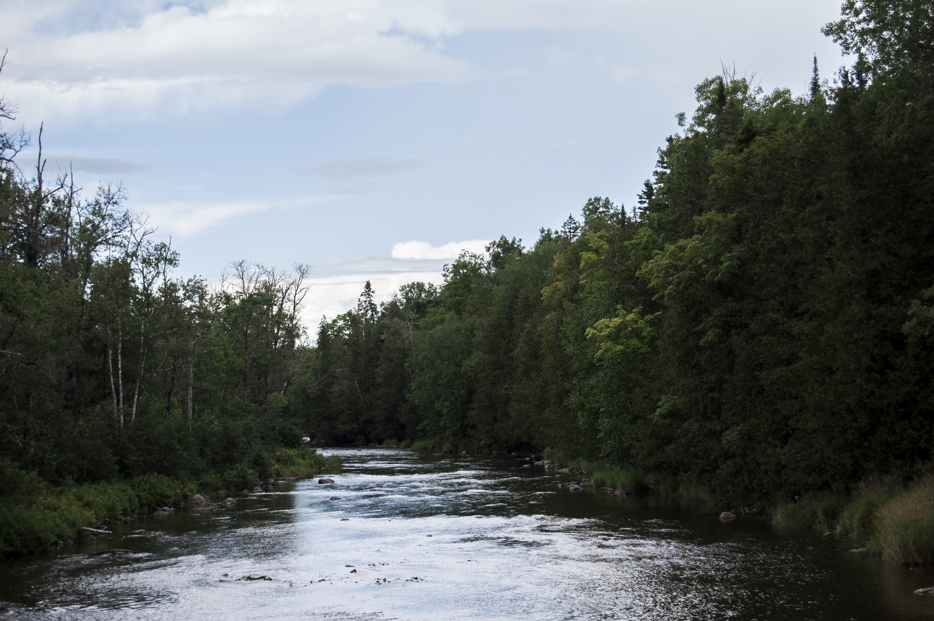 Day 3- Aroostook County